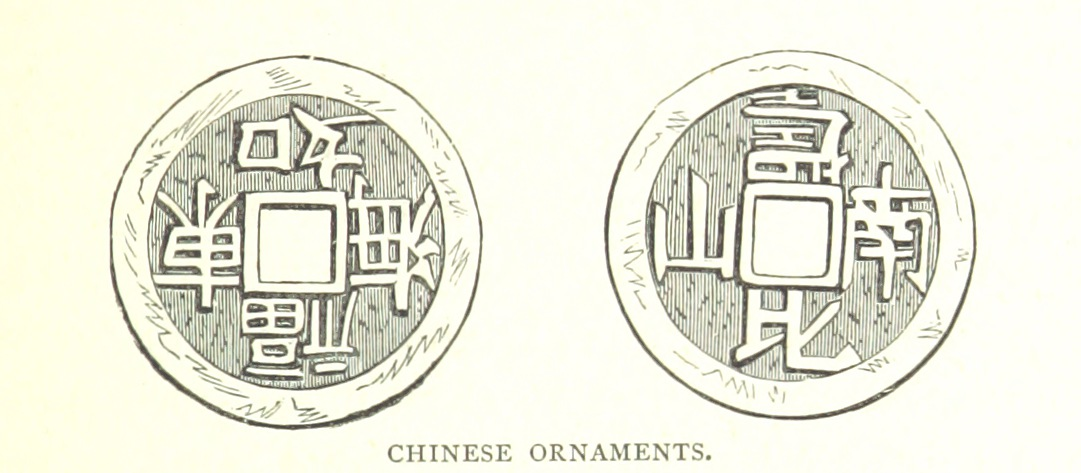 Image taken from: Title: "Across Chrysê, being the narrative of a journey of exploration through the South China border lands from Canton to Mandalay ... With ... maps ... and ... illustrations [including a portrait], etc" Author: COLQUHOUN, Archibald Ross. Shelfmark: "British Library HMNTS 10057.d.32." Volume: 02 Page: 205 Place of Publishing: London Date of Publishing: 1883 Publisher: Sampson Low & Co. Issuance: monographic Identifier: 000753463